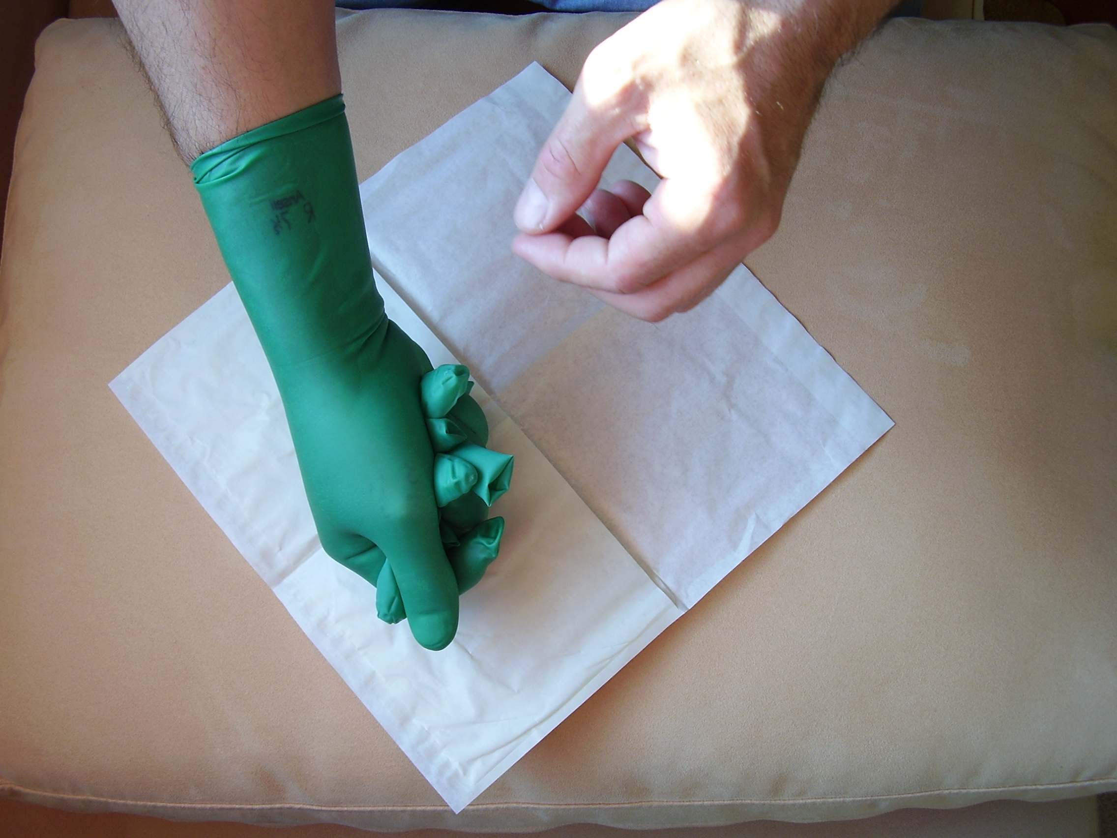 Disposable gloves; surgical gloves; chirurgische Handschuhe; steril; Latexhandschuhe